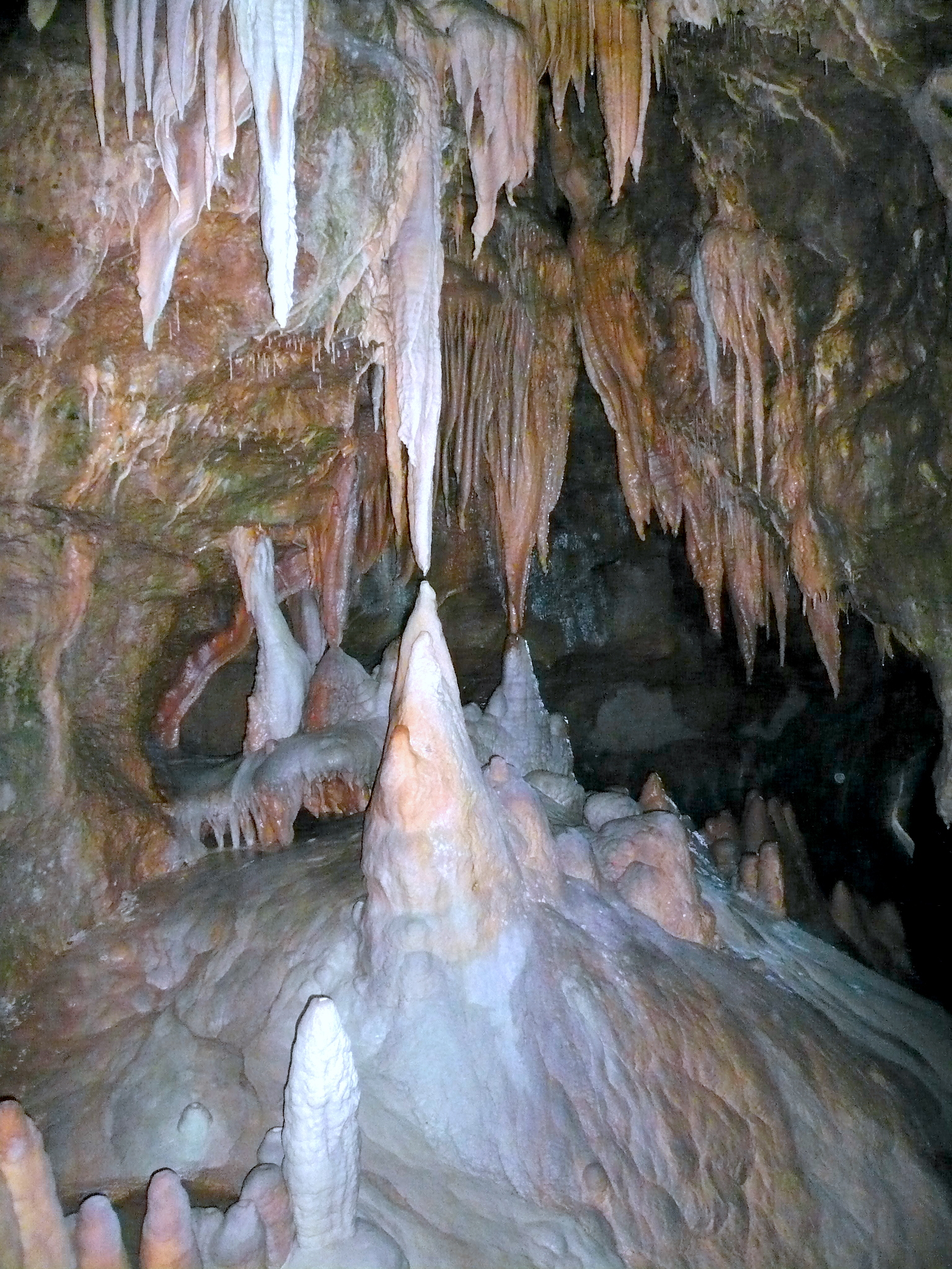 Teufelshoehle near Pottenstein, Barbarossabart